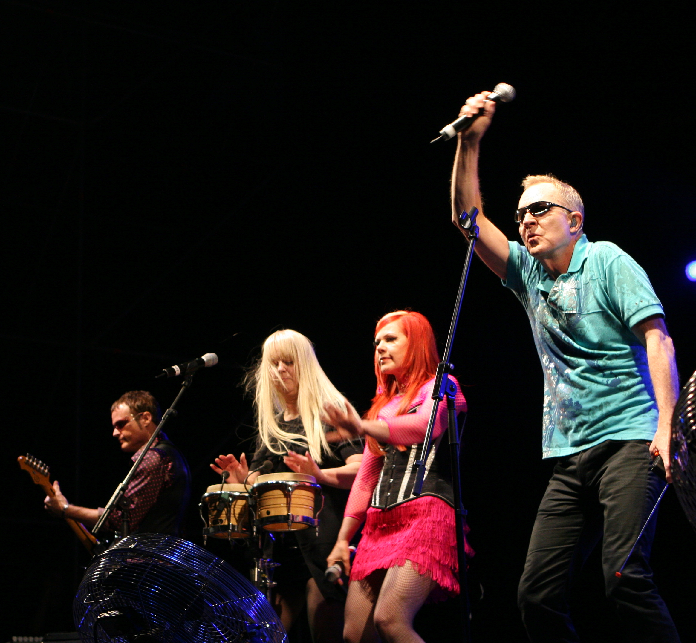 The B52s en Barcelona